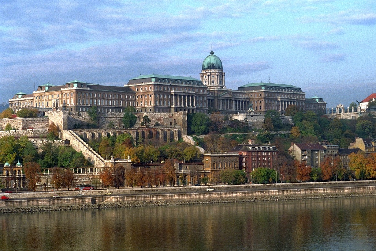 View over Donau river to Buda Castle in Budapest